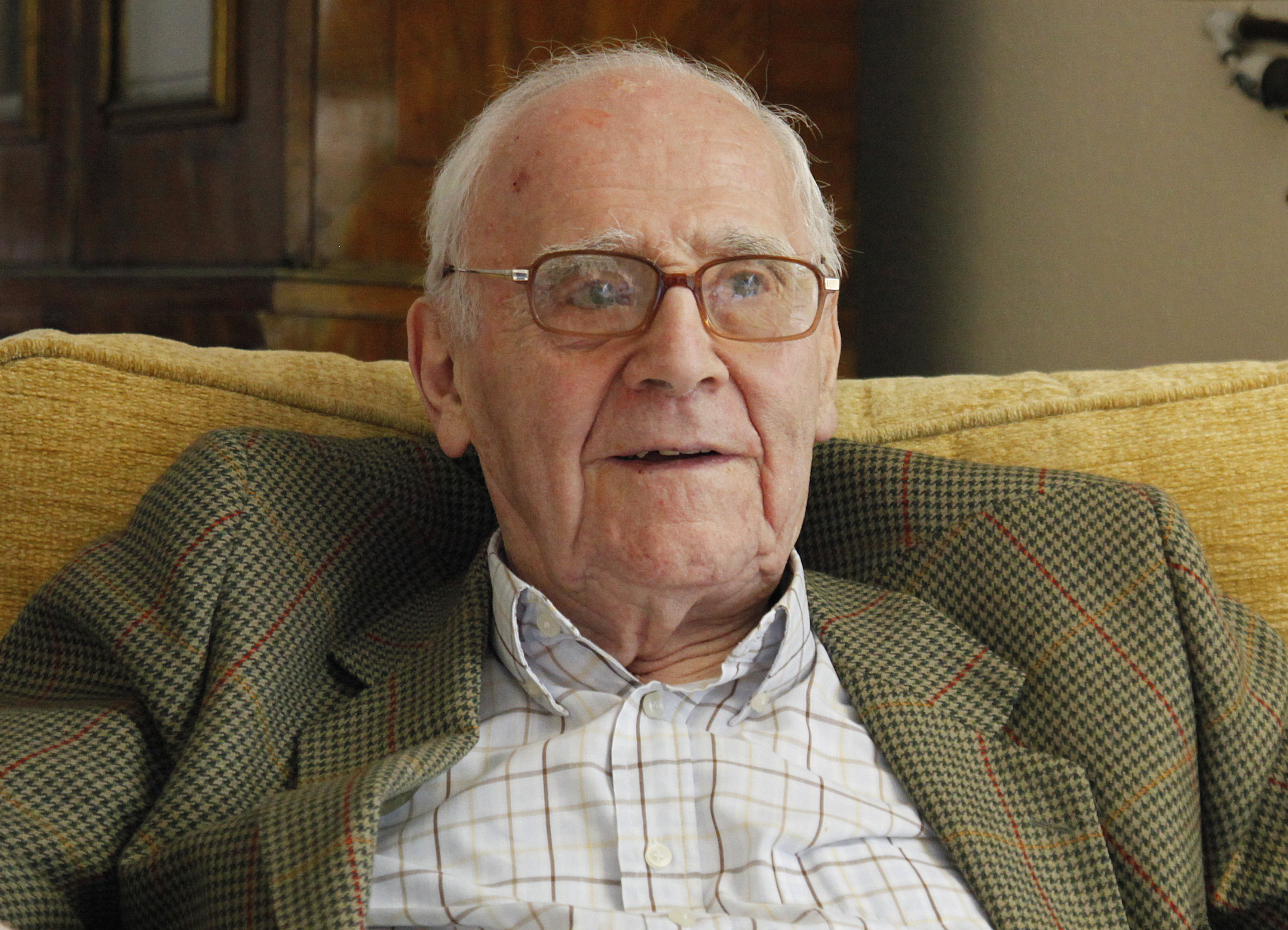 Photograph of the late Dr Herbert Loebl, OBE